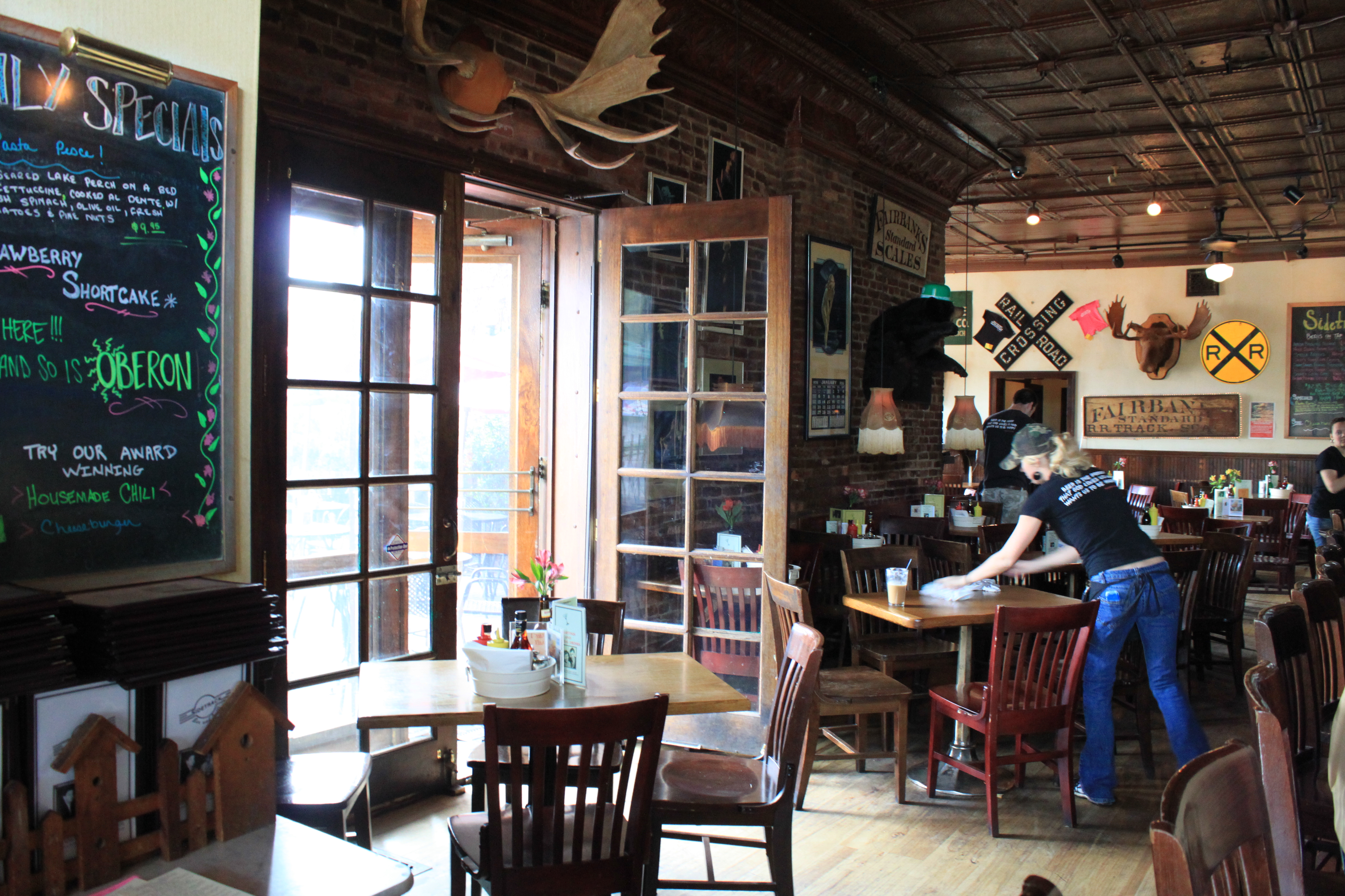 Sidetrack Bar & Grill interior